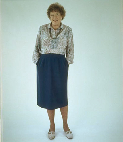 Polaroid portrait of Julia Child.